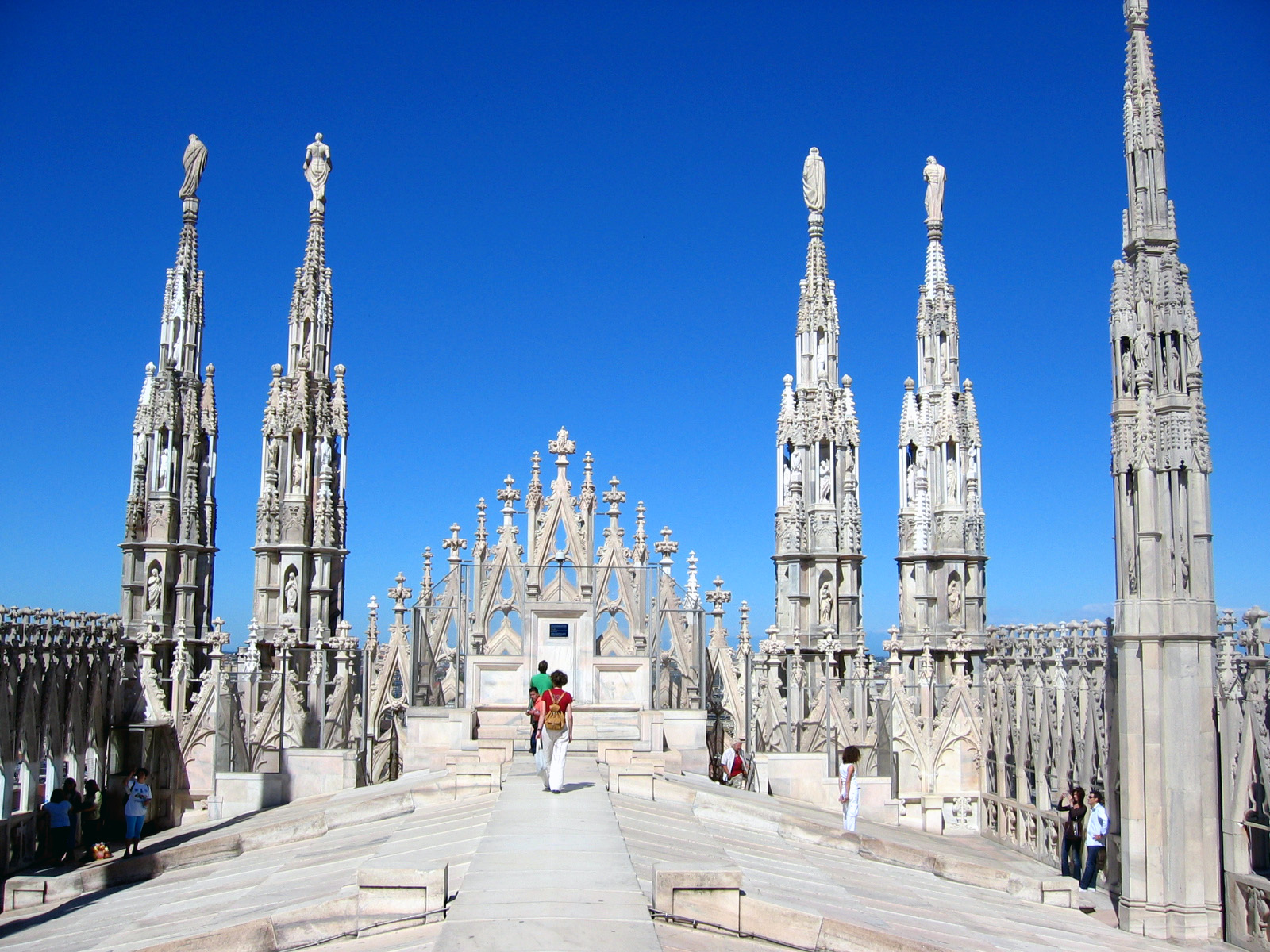 The roof of the Duomo (Cathedral) in Milan (Italy).